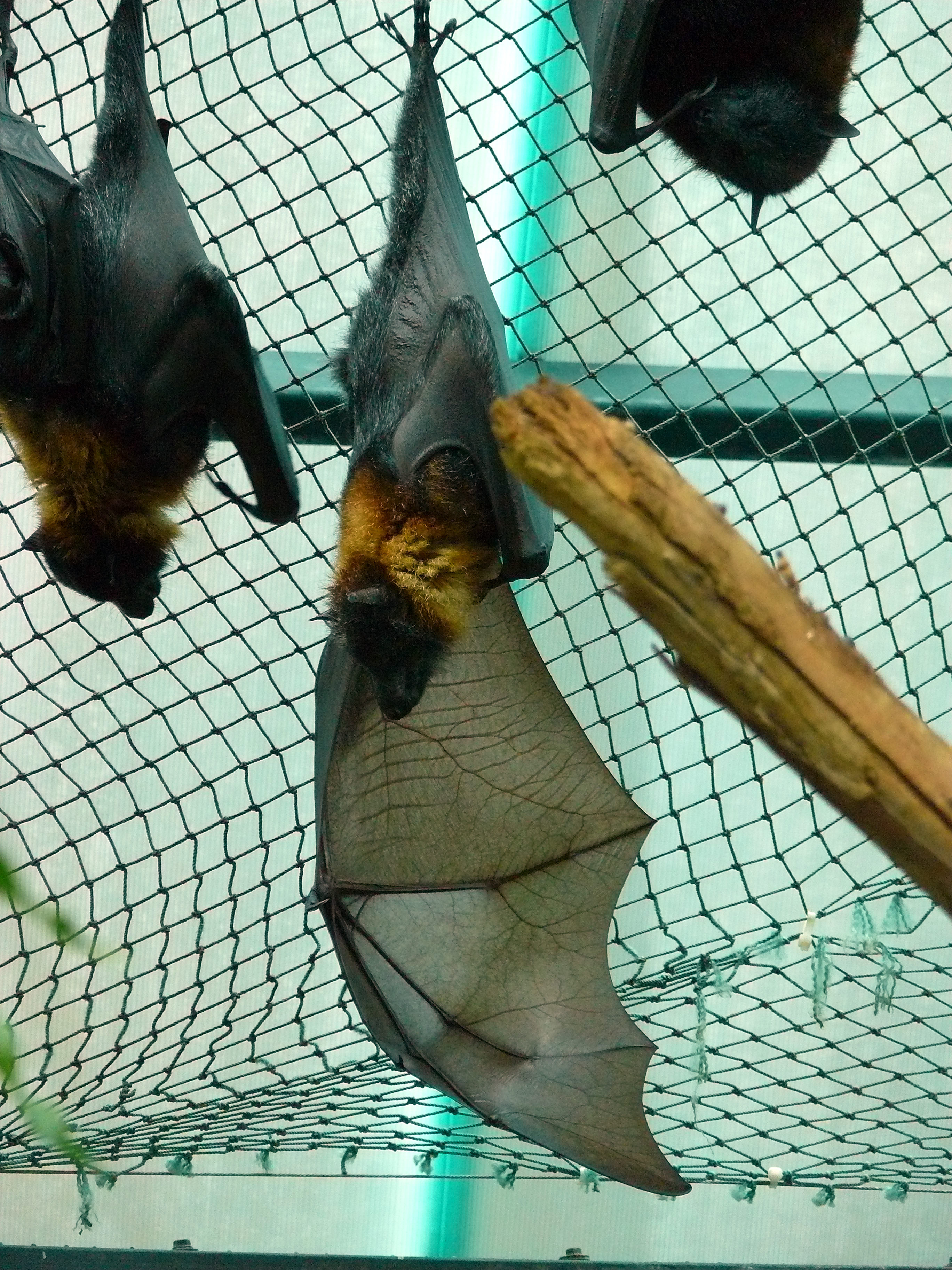 Grey-head Fruit Bat in Jerusalem Biblical Zoo